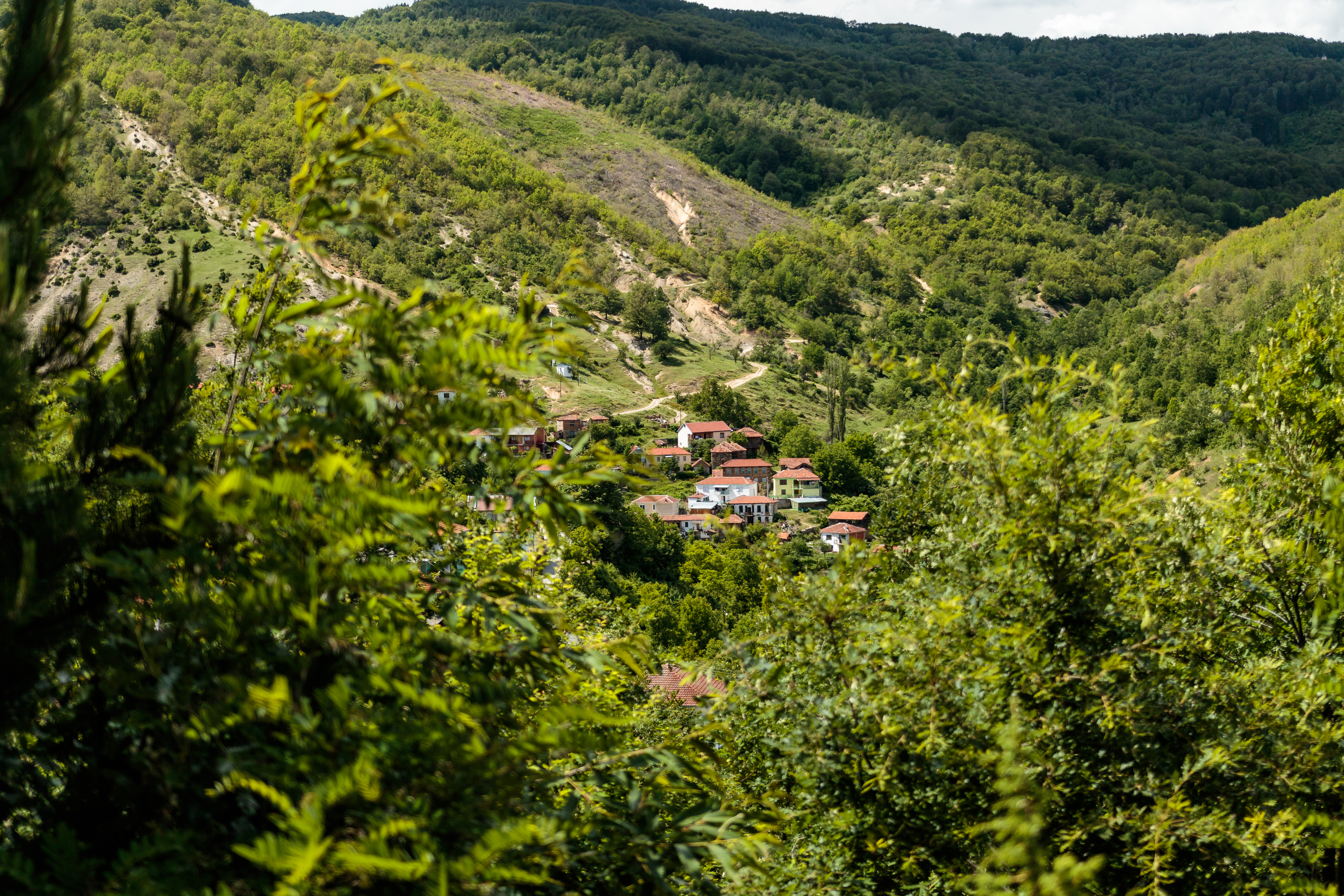 View of the village Smilevo